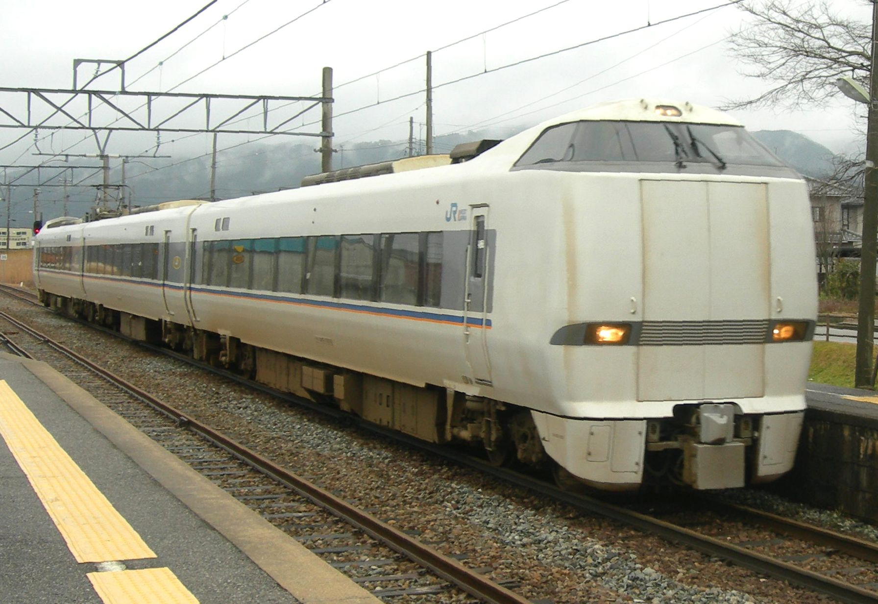 A JR West 683-2000 series EMU passing through Yoshikawa Station on a Shirasagi limited express service